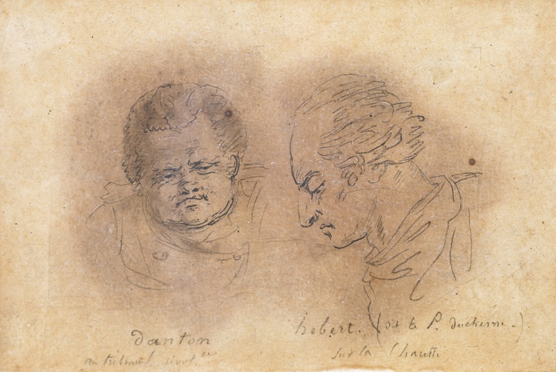 Danton et Hébert par Vivant Denon